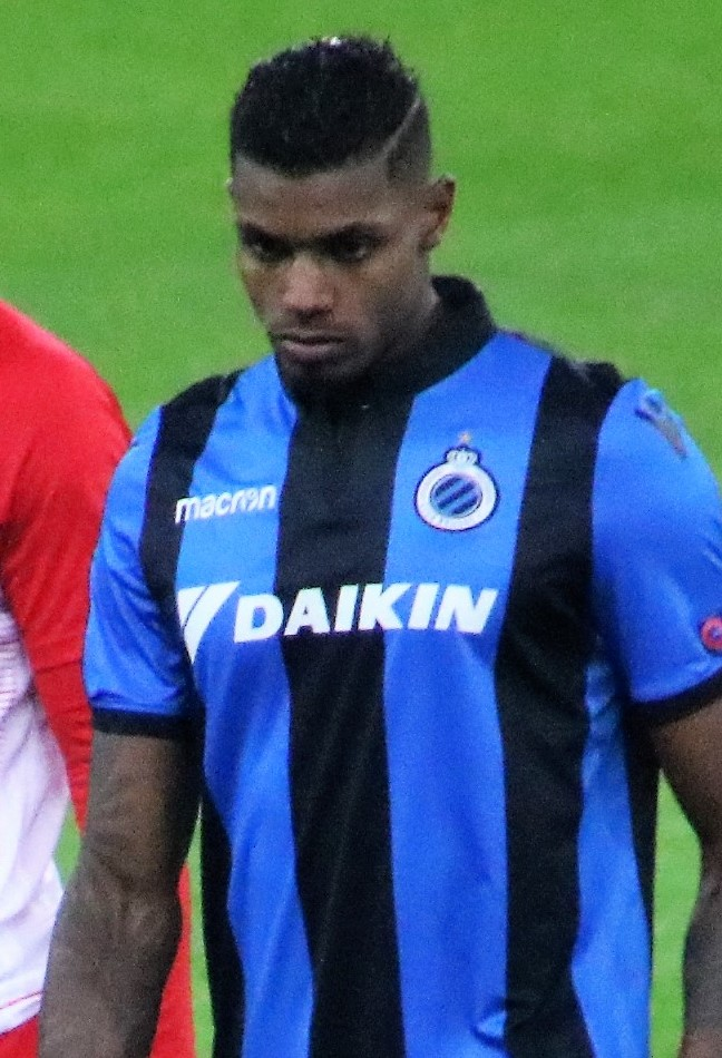 UEFA Euro League round of 32